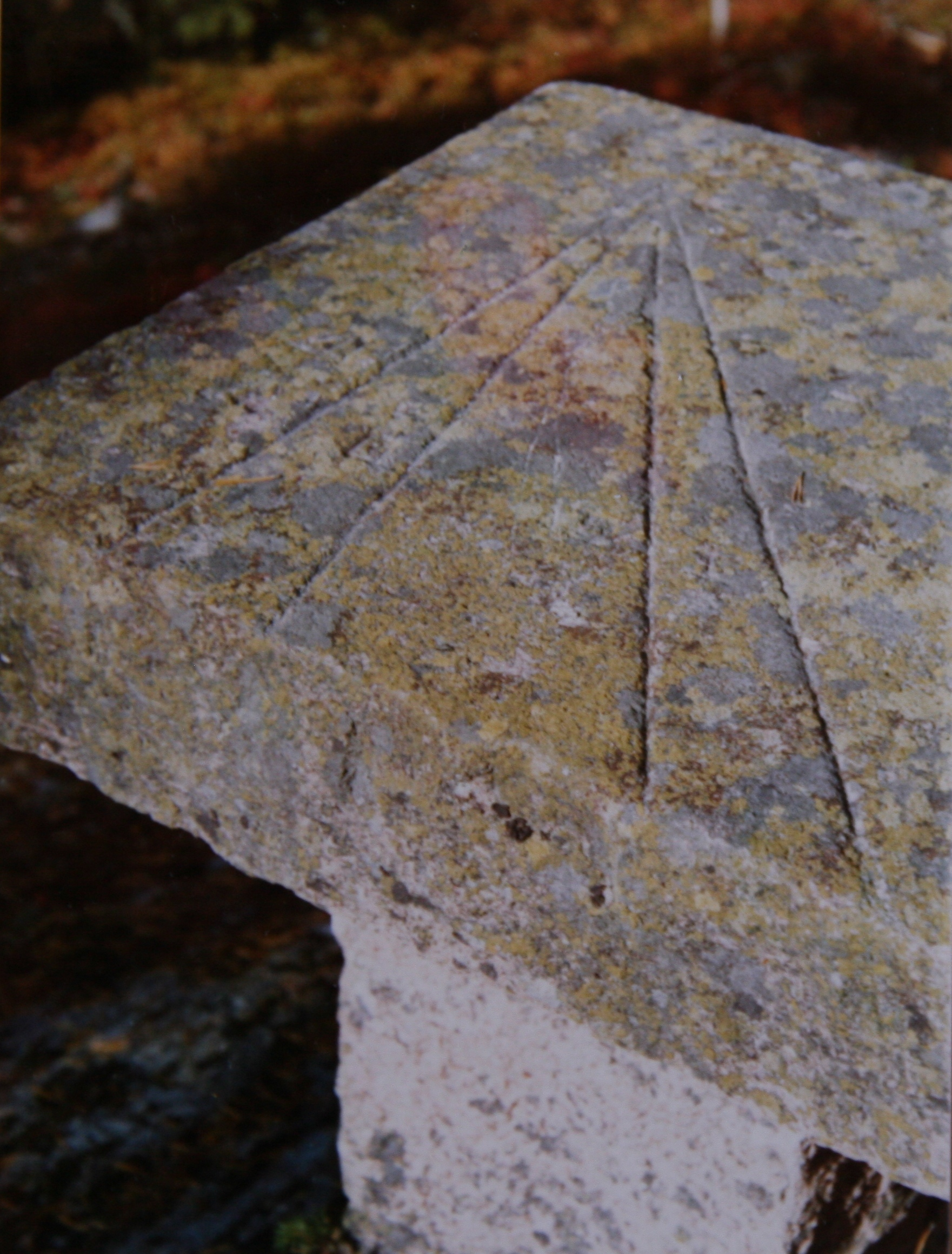 The original orientation table at Høgaas battery, Fetsund, Norway